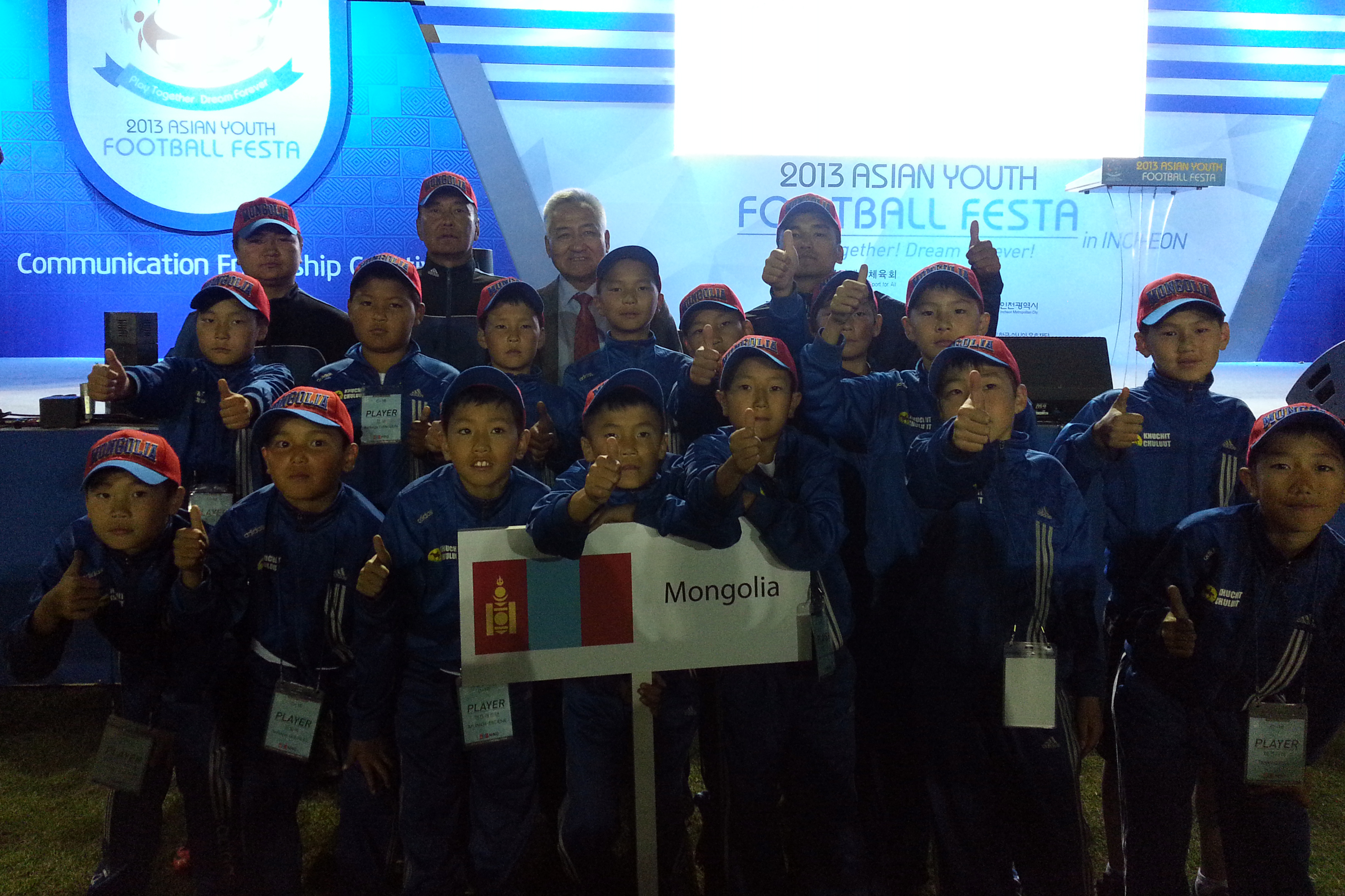 2013.10.03. БНСУ-ын Инчён хотод болсон Азийн өсвөрийн хөлбөмбөгчдийн Фестивалийн нээлтийн ажиллагаа.